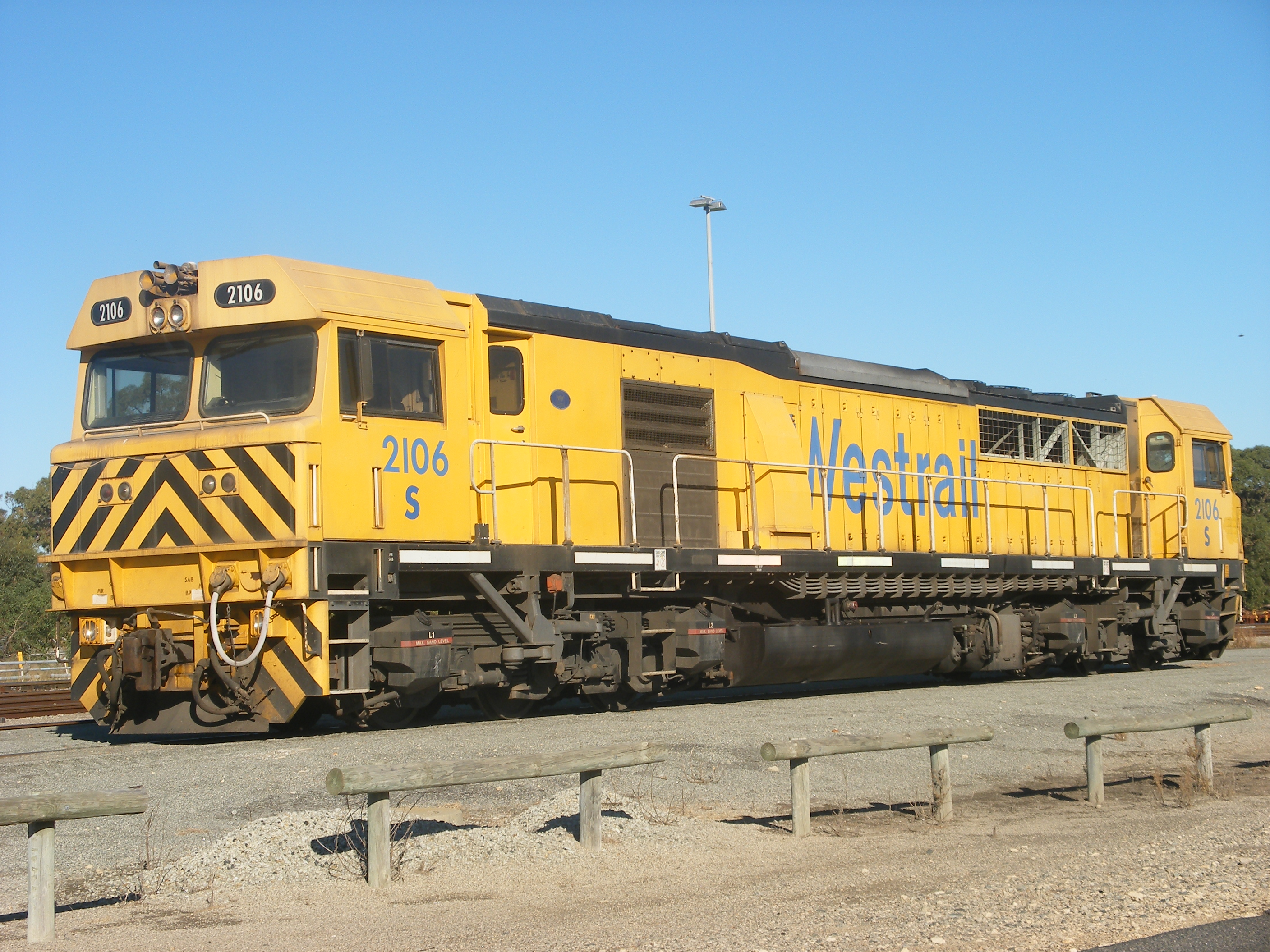 The last ever locomotive to wear the full Westrail yellow livery is S2106 shown in this picture taking a break from duties.